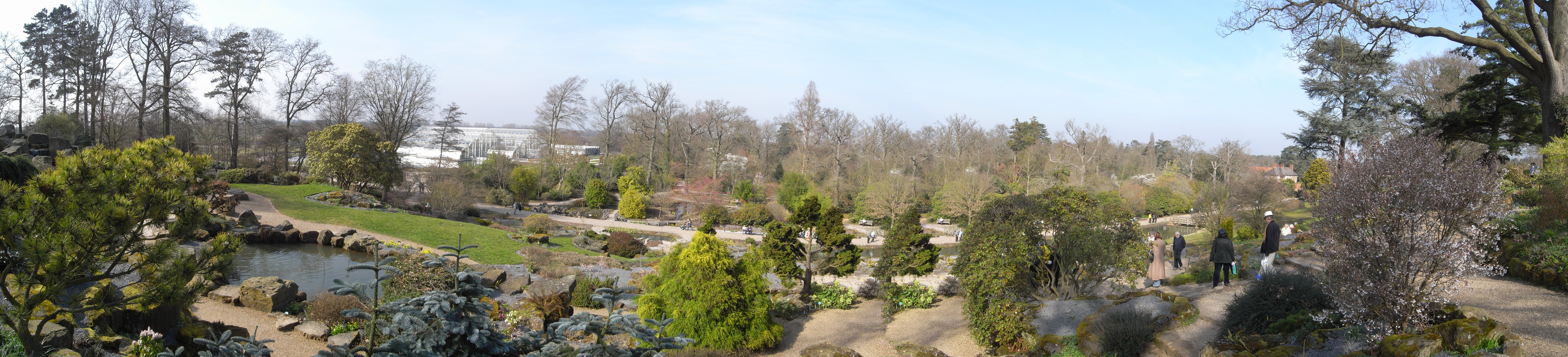 RHS Garden, Wisley. Looking north from the high point of the Rock Garden, with the Alpine Meadow on the right, which extend to the main path. Beyond is the Wild Garden, with the Glasshouse on the left and the Laboratory just visible on the right. Panorama of 6 photos made with Arcsoft Panorama Maker 3. Photos by Ricoh GX100, all at F/6.5, 1/200s, ISO 100, WB daylight.